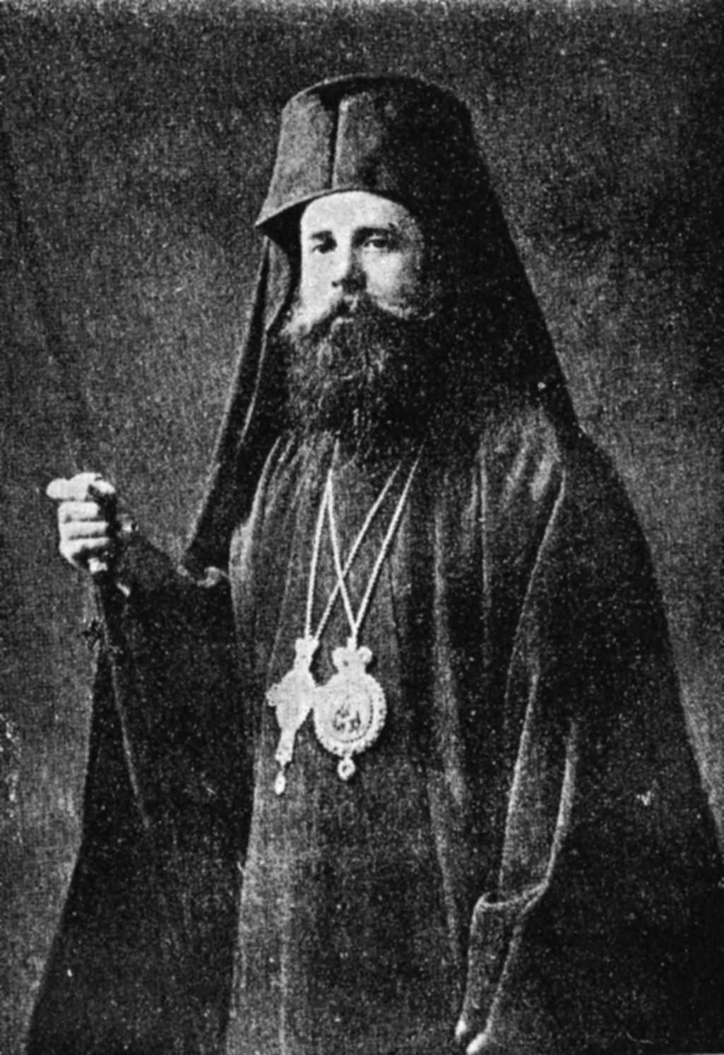 photo portrait of metropolitan Chrysanthos